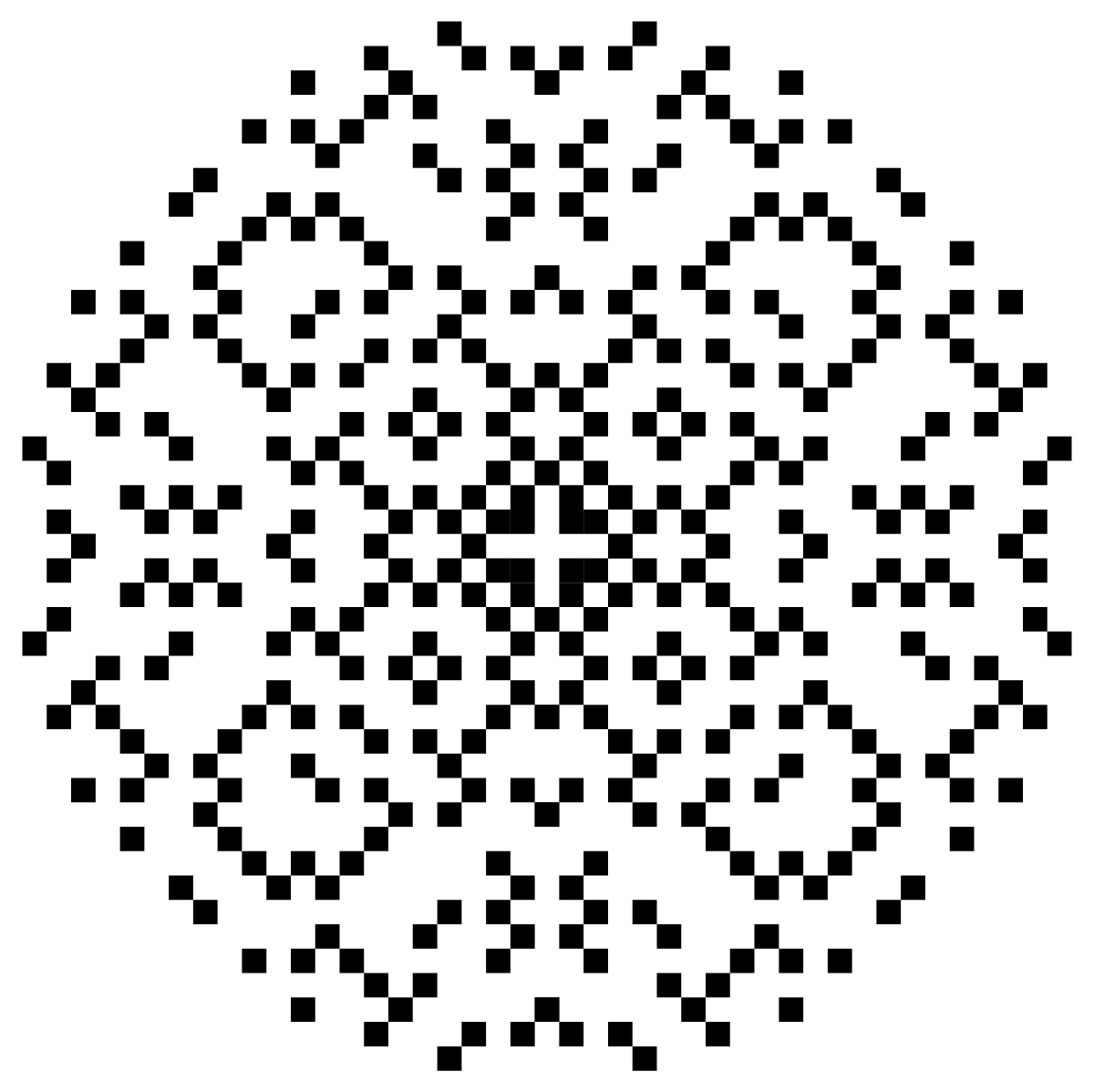 Gaussian primes with norm less than 500